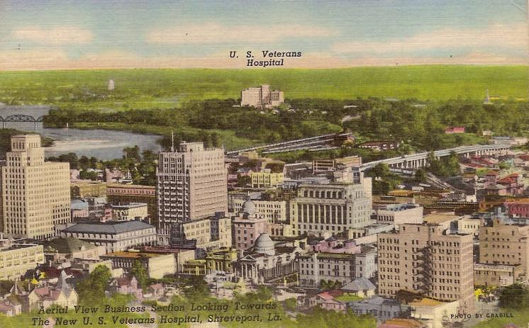 Shreveport Skyline in 1953, postcard view